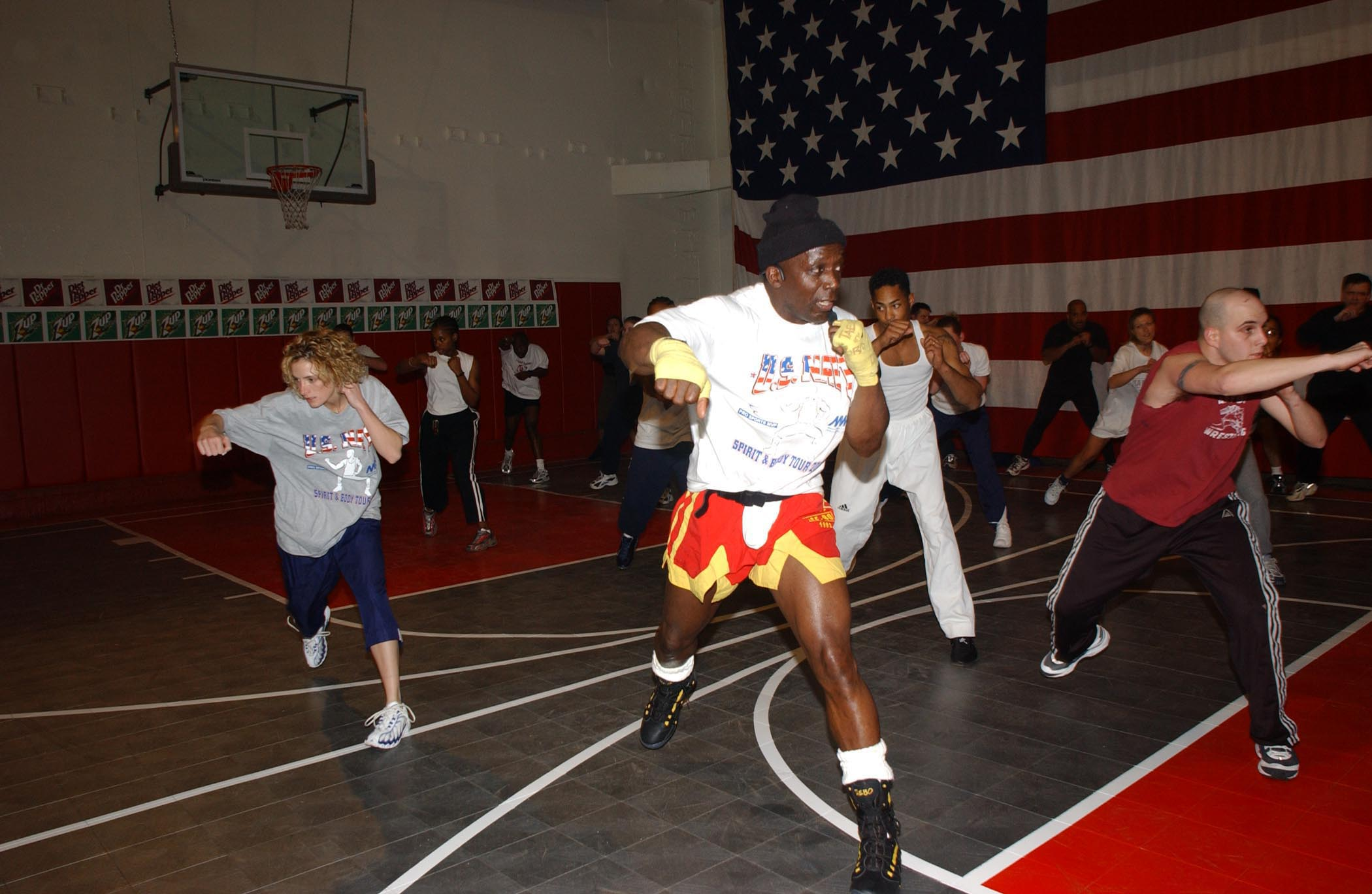 020111-N-1523T-001 GAETA, Italy, Jan. 11, 2002 --. Signalman Seaman Jeremy Cavaretta of New York (right) works out with Billy Blanks (center), the creator of "Tae Bo", during his visit aboard the Sixth Fleet flagship USS La Salle (AGS 3). Blanks was onboard for a ribbon-cutting ceremony officially opening a new multi-purpose court onboard. The $29,000 facility, which was funded completely by non-appropriated or non-taxpayer funds, is part of an ongoing effort to improve exercise facilities for Sailors serving at sea. U.S. Navy photo by Photographer's Mate 2nd Class Todd Reeves. (Released)